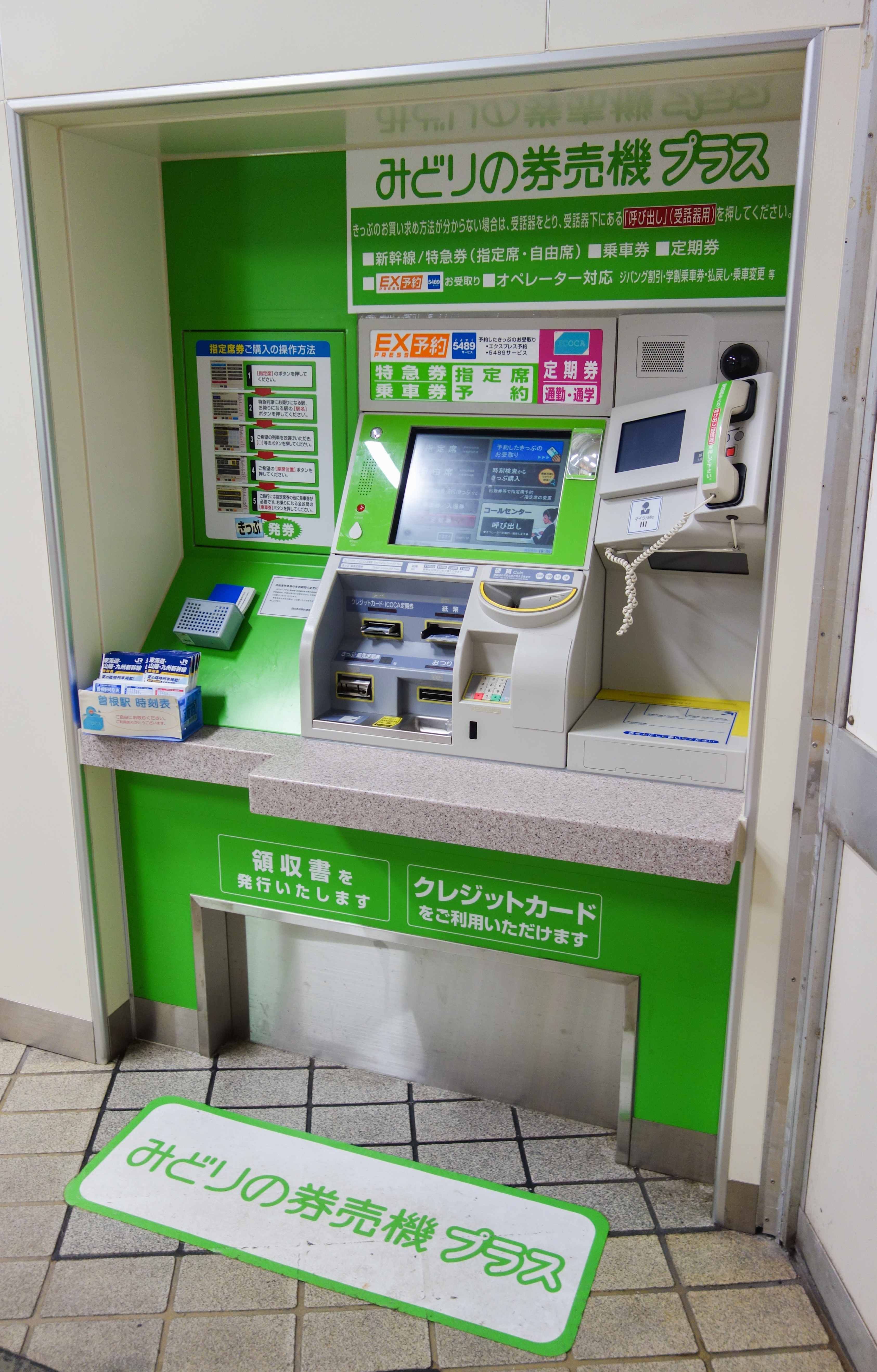 Midori no kenbaiki plus ticket machien at Sone Station on the JR West Sanyo Main Line